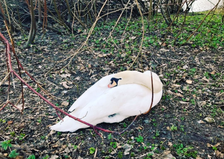 The swan is resting